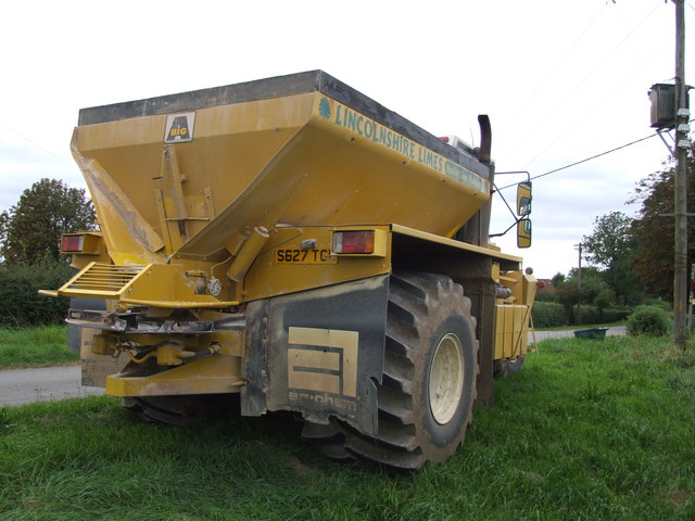 Farm vehicle at Low Hameringham Used for spreading lime.